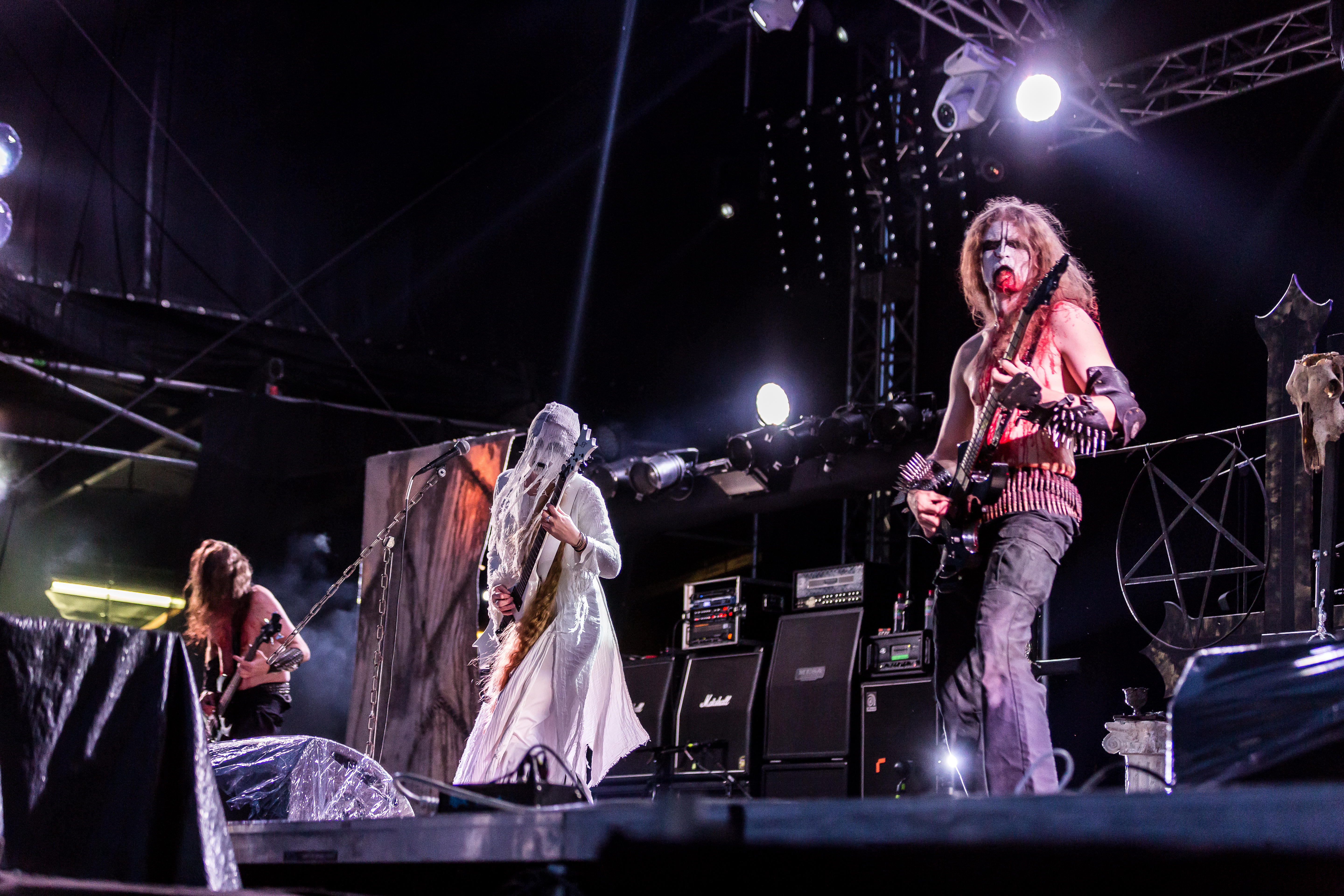 The German black metal band Darkened Nocturn Slaughtercult at the Party.San Metal Open Air 2016 in Obermehler-Schlotheim/Germany.